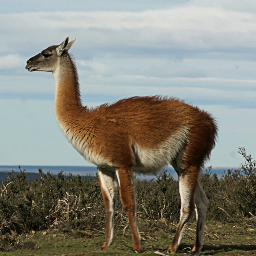 Mary Frances Howard, photographer Guanaco in Torres del Paine National Park in Chile